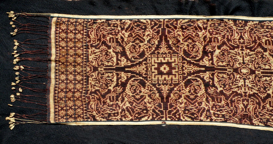 Geringsing textile from the village of Tenganan, Bali. This is a very old cloth that has been darned in several places. Quiite possibly this age and fragility is wht this cloth came on the market. From the collection of Balique Arts of Indonesia.